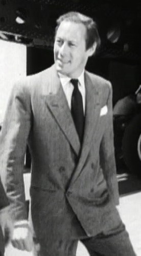 Cropped screenshot of Rex Harrison from the trailer for the film Miracle on 34th Street. (Anne Baxter did not appear in the film, however she was one of several celebrities "interviewed" to provide an endorsement for the film as part of its marketing, along with Peggy Ann Garner, Anne Baxter and Dick Haymes).